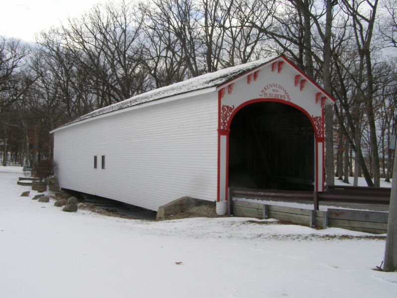 Crown Point Covered Bridge, Lake County Fairground, Crown Point, Indiana